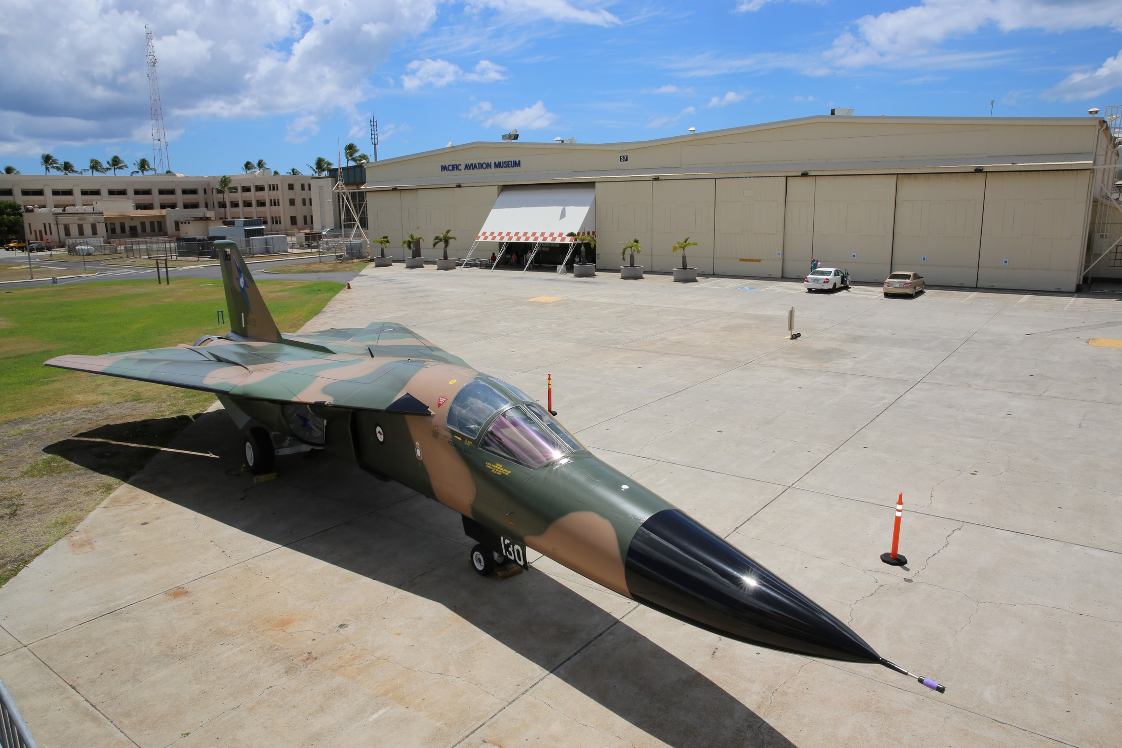 The arrival of a Royal Austrailian Air Force F-111C in front of hangar 37 at the Pacific Aviation Museum Pearl Harbor on Ford Island.